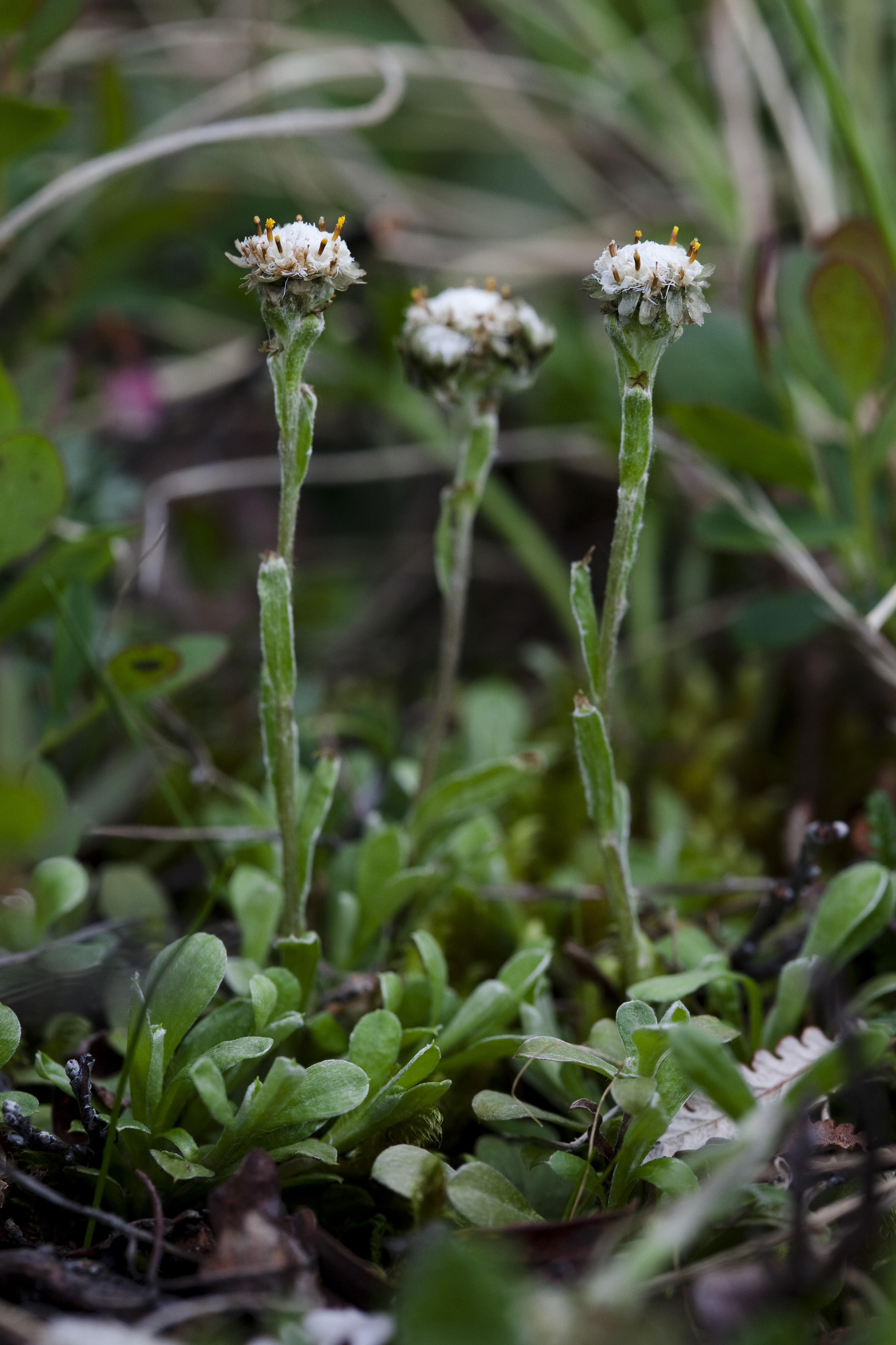 Antennaria monocephala ssp. monocephala, Denali National Park and Preserve, AK, USA